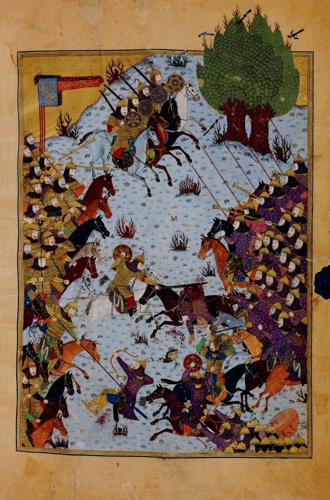 Kay_Khusrau_kills_Aila._Baysungur's_Shahnama,_1430._The_Gulistan_Palace_Museum,_Tehran.f335